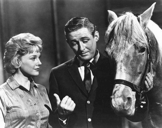 Photo of the main cast of the television program Mister Ed. From left-Connie Hines as Carole Post, Alan Young as Wilbur Post.